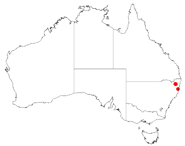 Acacia beadleana Occurrence data from Australasia Virtual Herbarium downloaded from on 8 December 2018